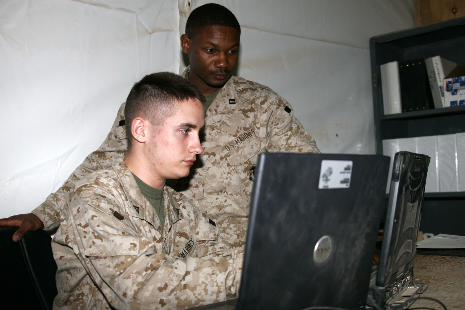 KALSU, Iraq � Lance Cpl. Matthew L. Powers (left), an air support network operator with the Air Support Element of the 155th Brigade Combat Team, and Capt. Daryl E. Horton, ASE officer-in-charge, maintain essential information flow needed to accomplish the team�s mission on July 14. Powers, a Bainbridge, N.Y., native, and Horton, from Columbia, S.C., are originally assigned to Marine Air Support Squadron 1 based at Marine Corps Air Station, Cherry Point, N.C.